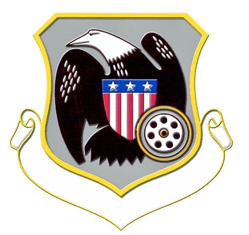 Emblem of the 442d Fighter Wing, Whiteman AFB, Missouri (used by the 442d Operations Group with group name on scroll)